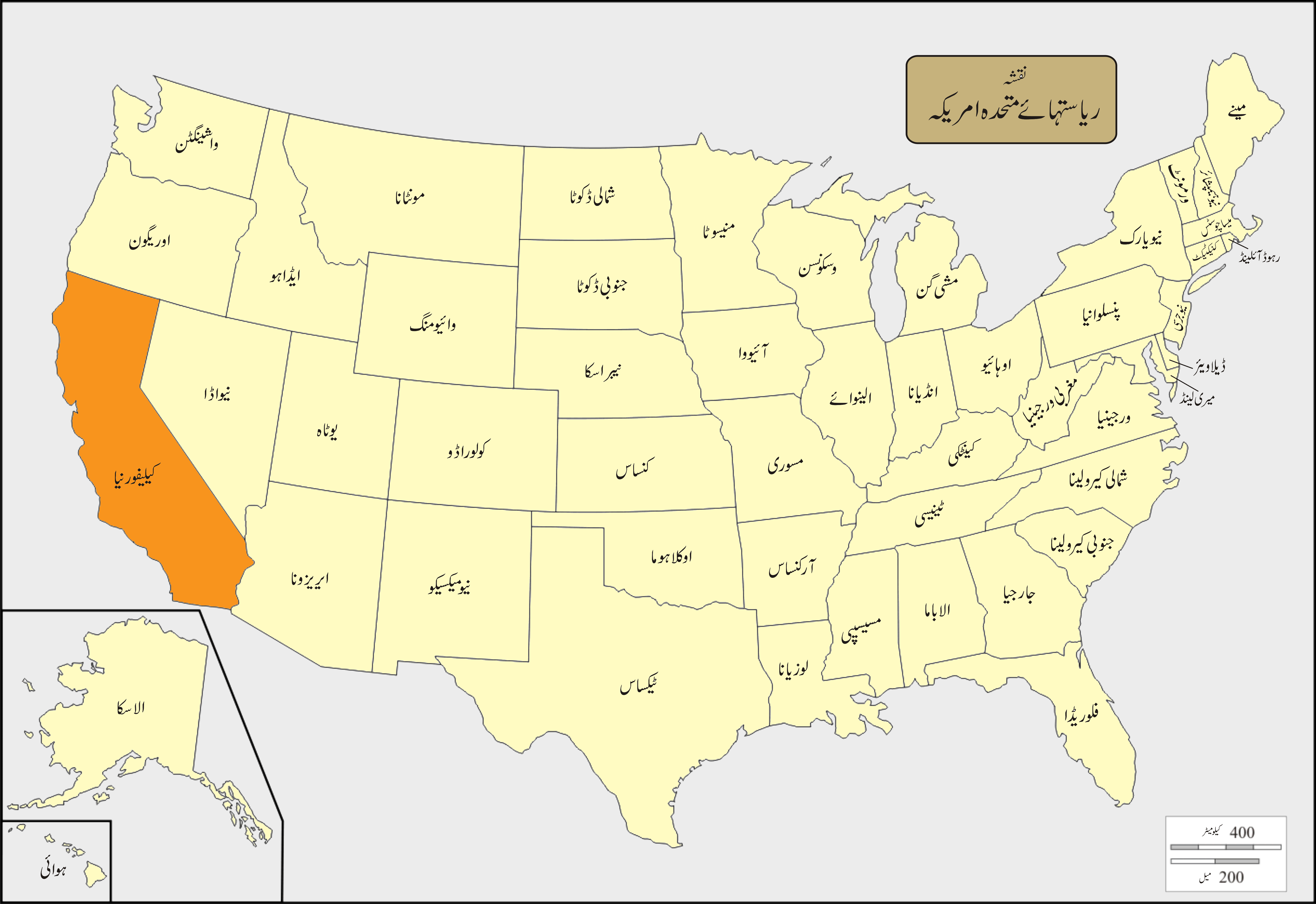 USA Names California